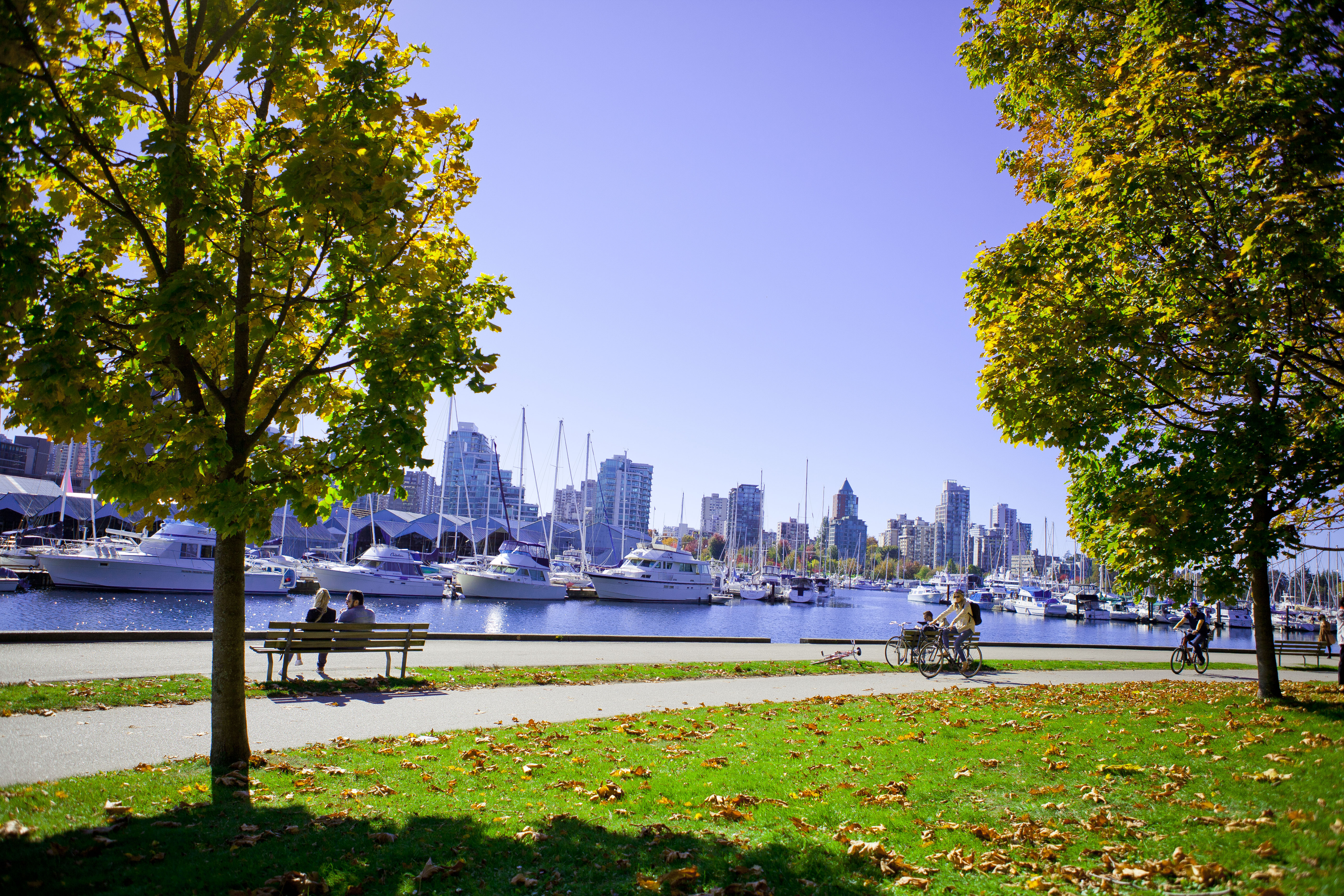 Stanley Park, Vancouver